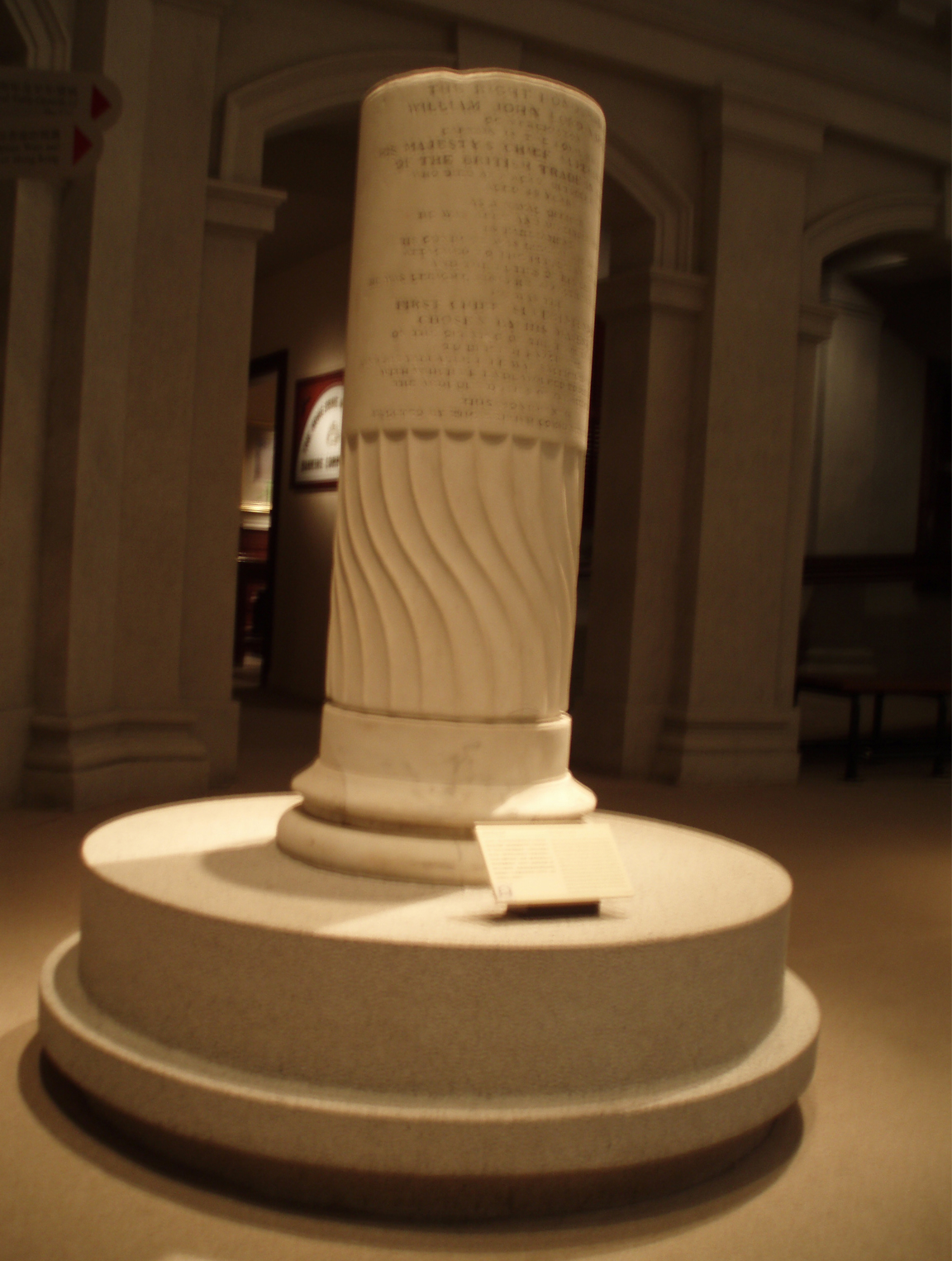 A memorial erected for Lord Napier, the first British Chief Superintendent of Trade to China.